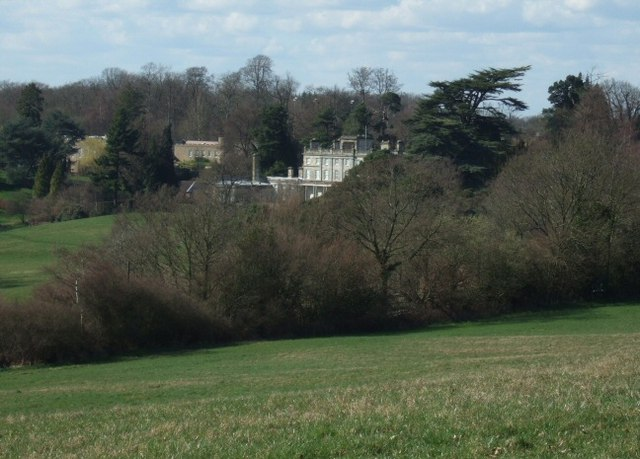 Saint Hill Manor looking west, near East Grinstead, England